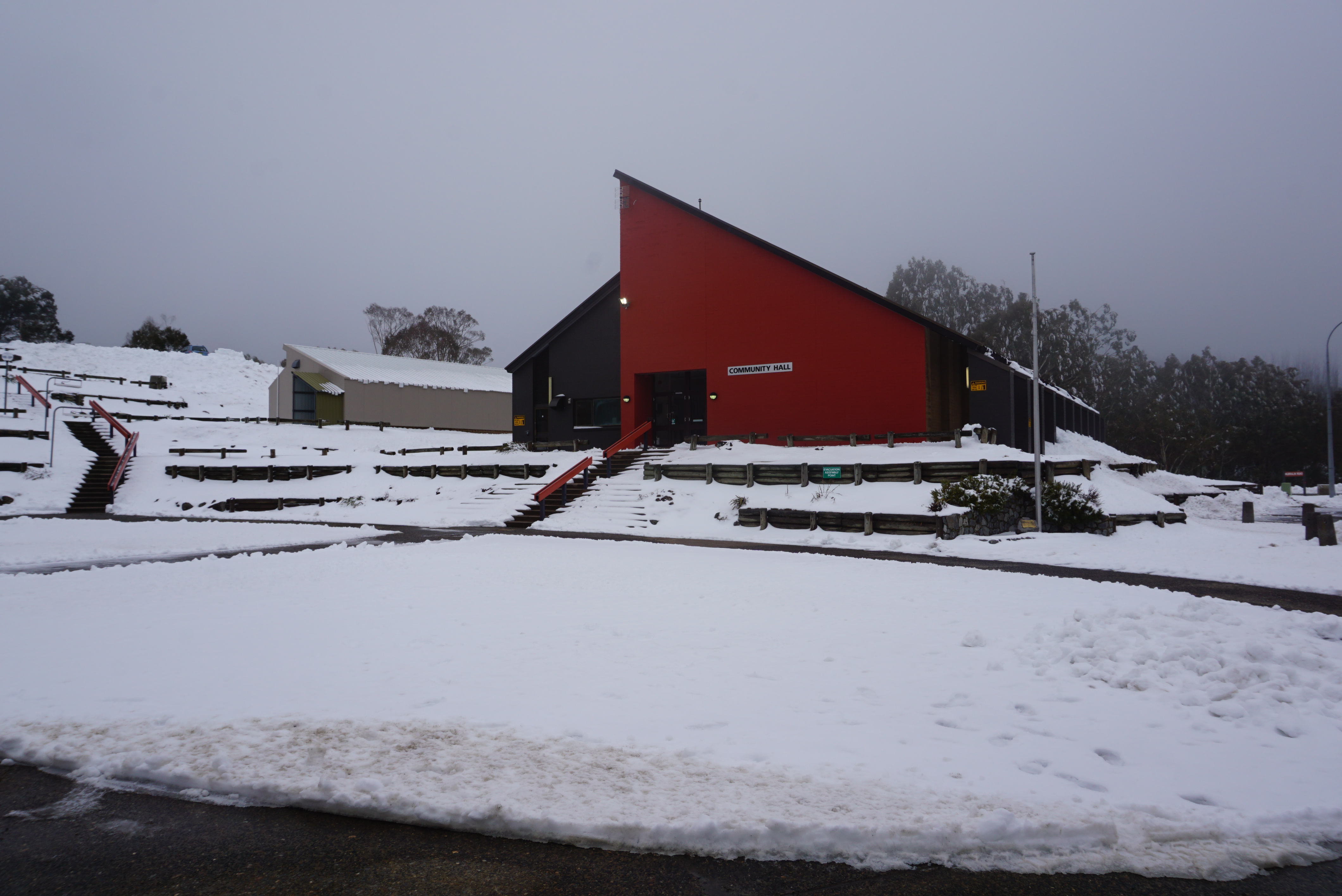 Cabramurra, New South Wales, Australia